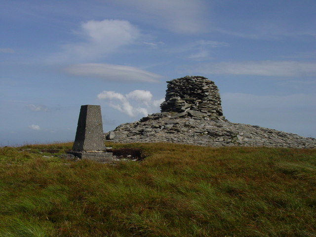 The Paps (western summit) The western summit of The Paps, Derrynasaggart Mountains, showing the large cairn and trig point.